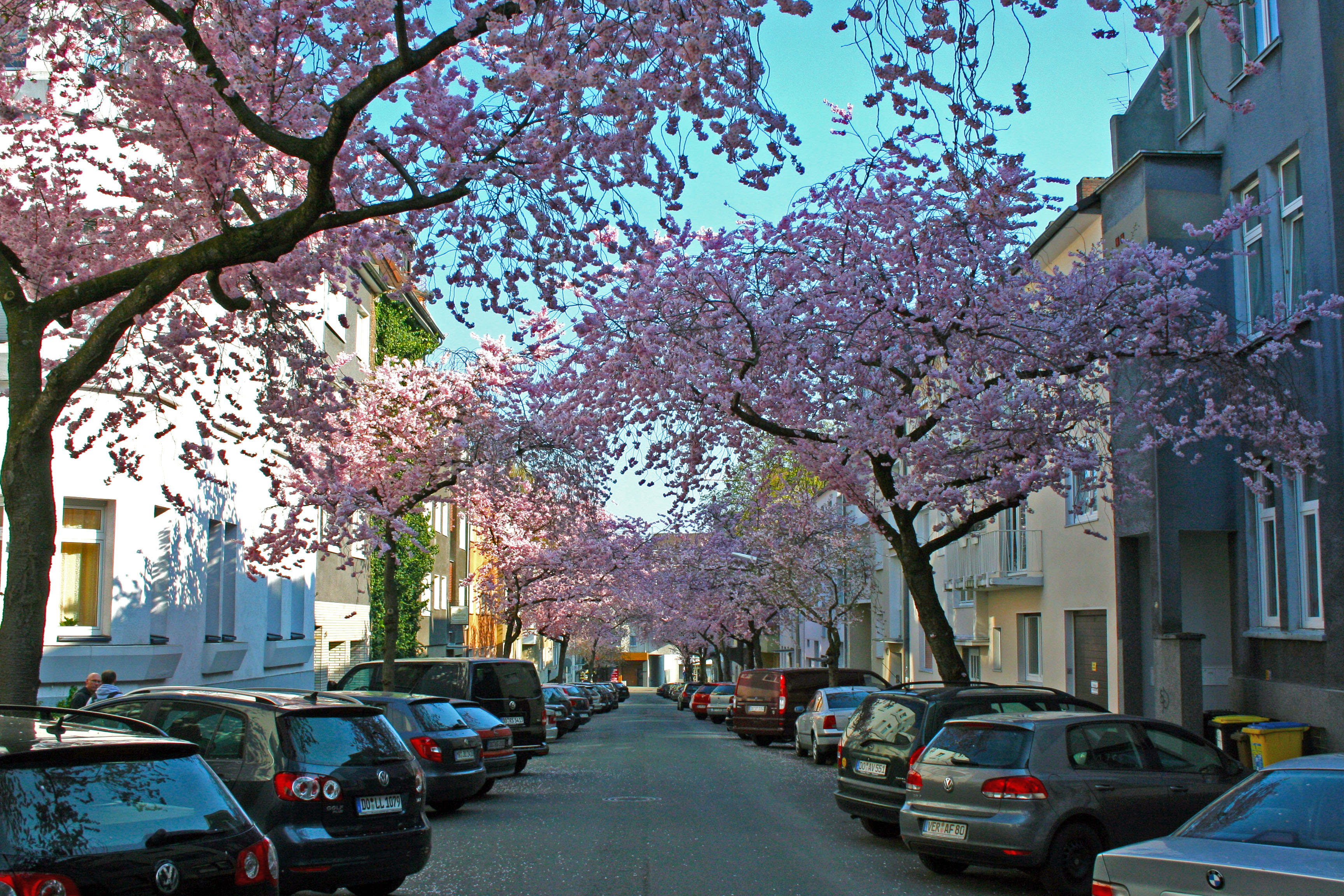 Sakura Kaiserstreet